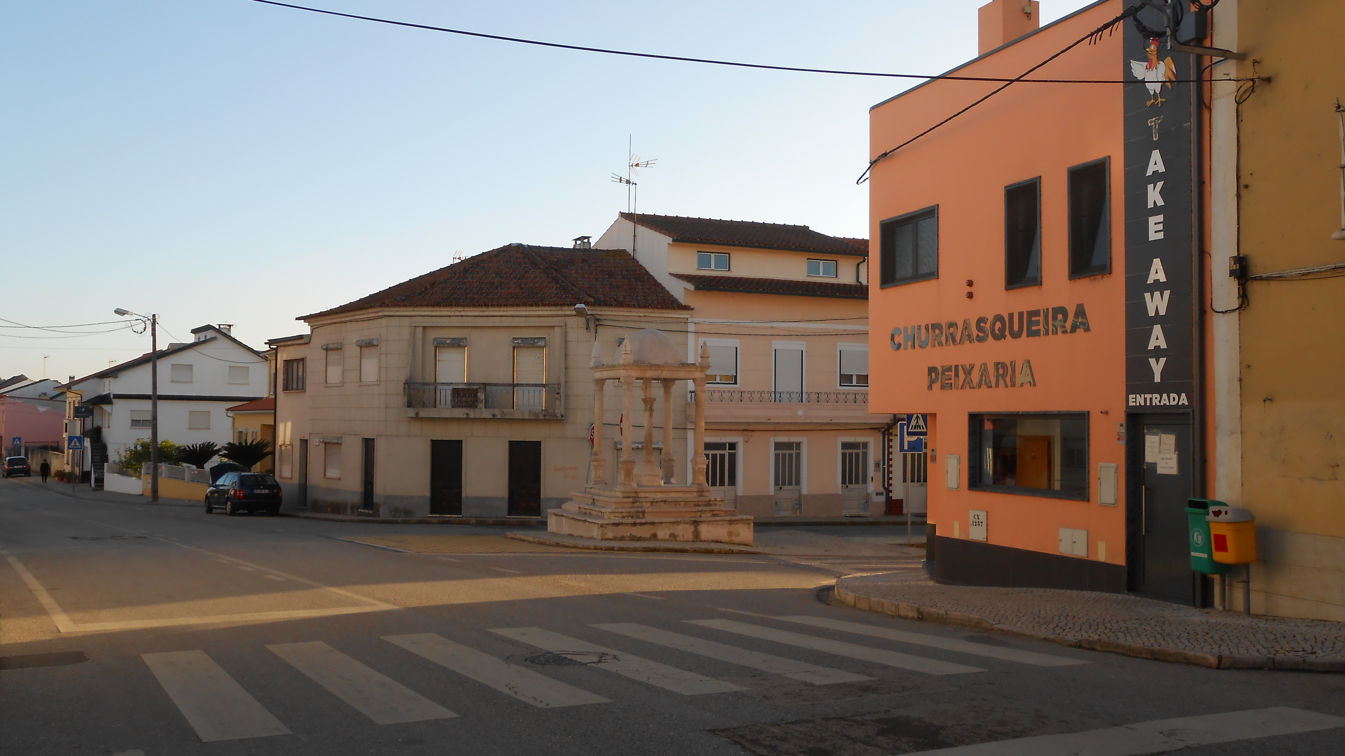 Covered stone cross at the main street in Vila Nova de Anços.